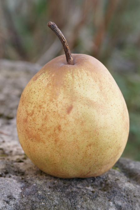 Passe-Crassane pear